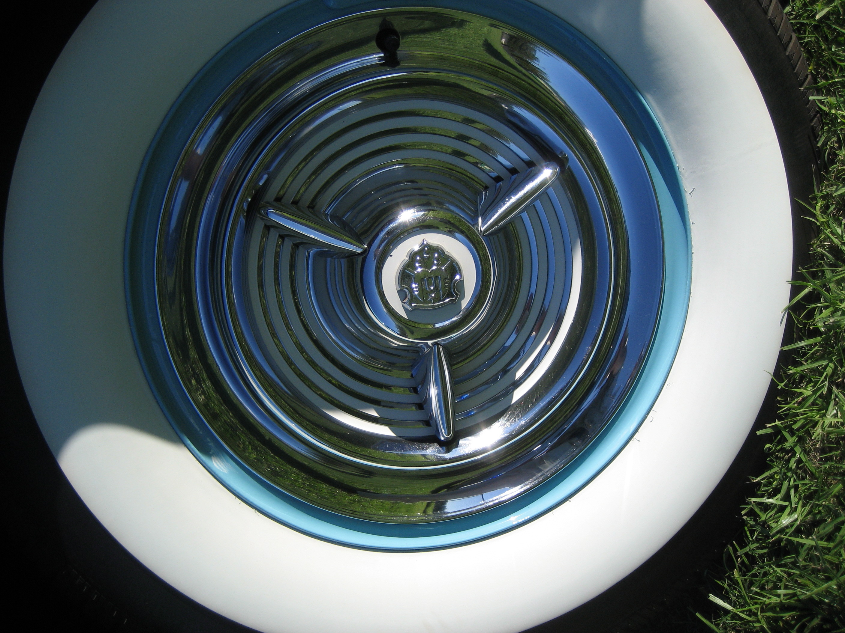 Ub cap of 1955 Oldsmobile Ninety Eight, photographed at the Audubon Park Butterfly, New Orleans.